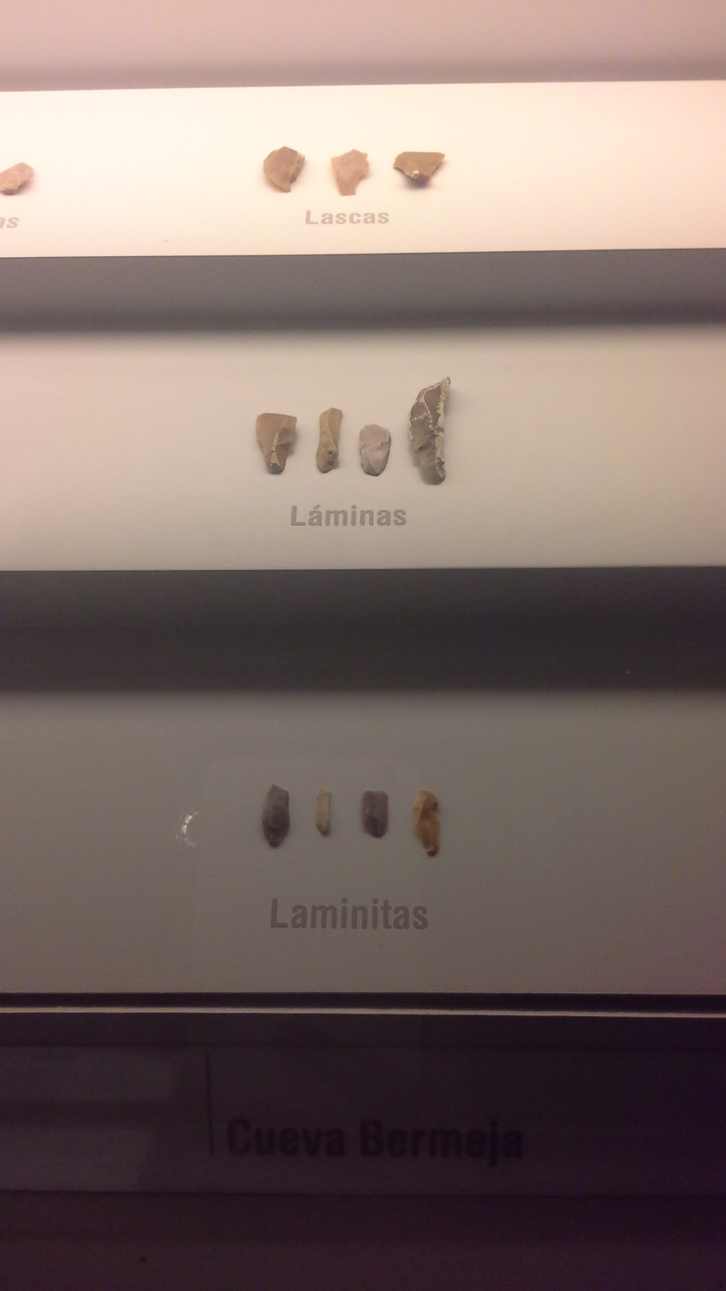 Lithic pieces drawn from Bermeja Cave (Cartagena, Spain), exposed in the Archaeology Museum of Murcia.